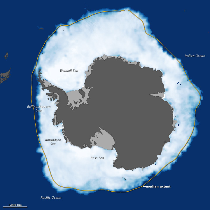 September 2012 witnessed two opposite records concerning sea ice. Two weeks after the Arctic Ocean's ice cap experienced an all-time summertime low for the satellite era (left), Antarctic sea ice reached a record winter maximum extent (right). But sea ice in the Arctic has melted at a much faster rate than it has expanded in the Southern Ocean, as can be seen in this image by comparing the 2012 sea ice levels with the yellow outline, which in the Arctic image represents average sea ice minimum extent from 1979 through 2010 and in the Antarctic image shows the median sea ice extent in September from 1979 to 2000.